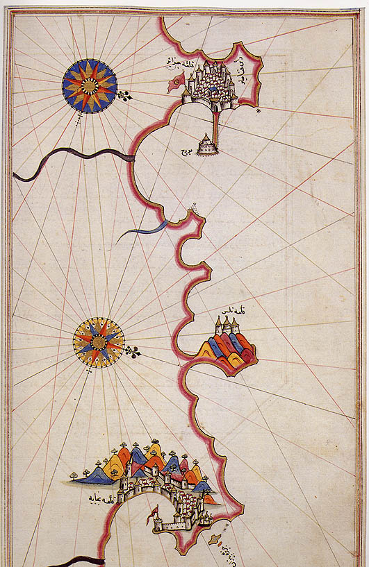 Algiers and Bejaia on the Kitab-Ä± Bahriye (Book of Navigation) of Piri Reis